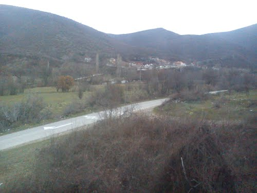 village of Dvorce, Macedonia